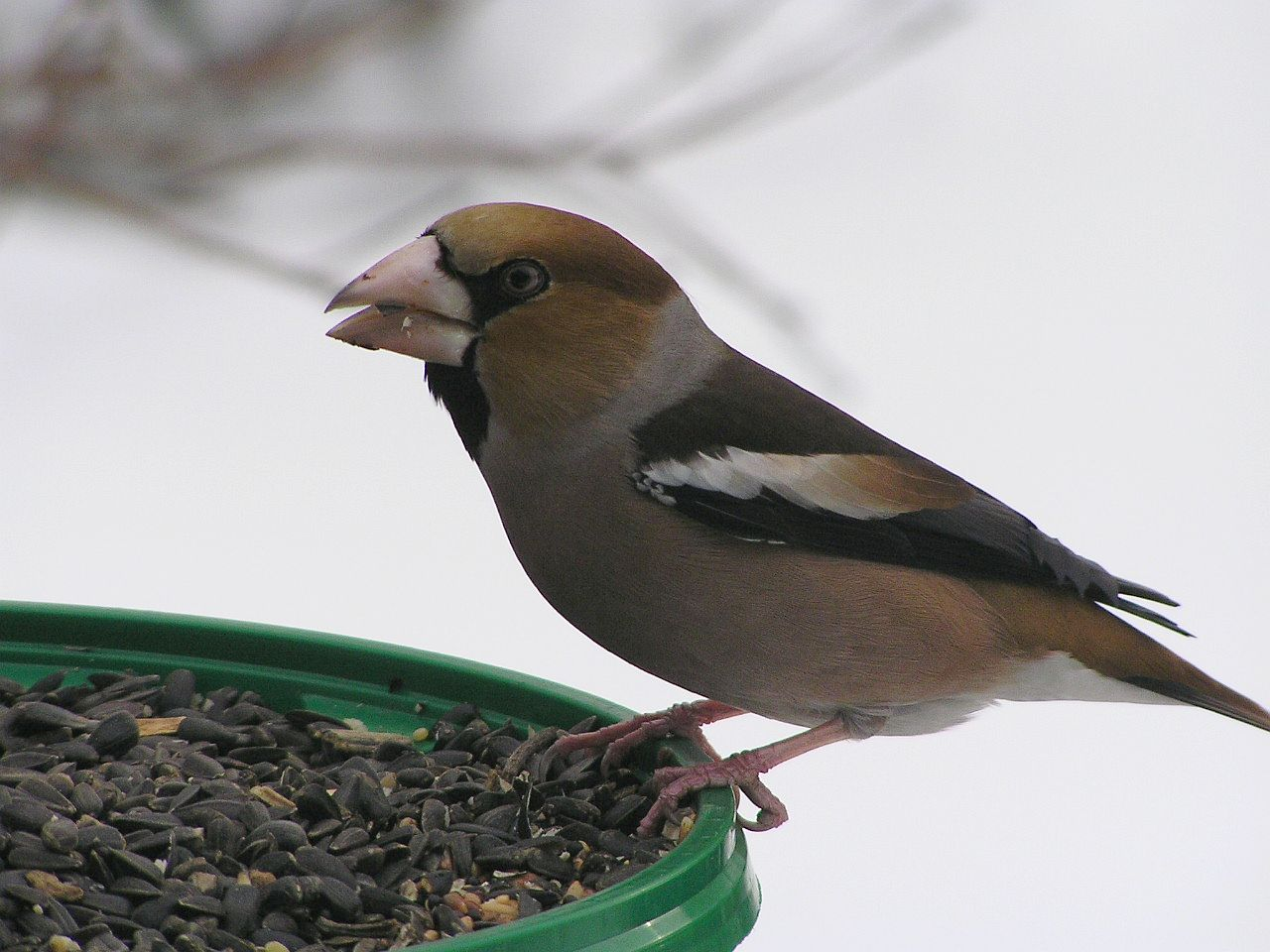 Hawfinch Coccothraustes coccothraustes in Bytom, Poland